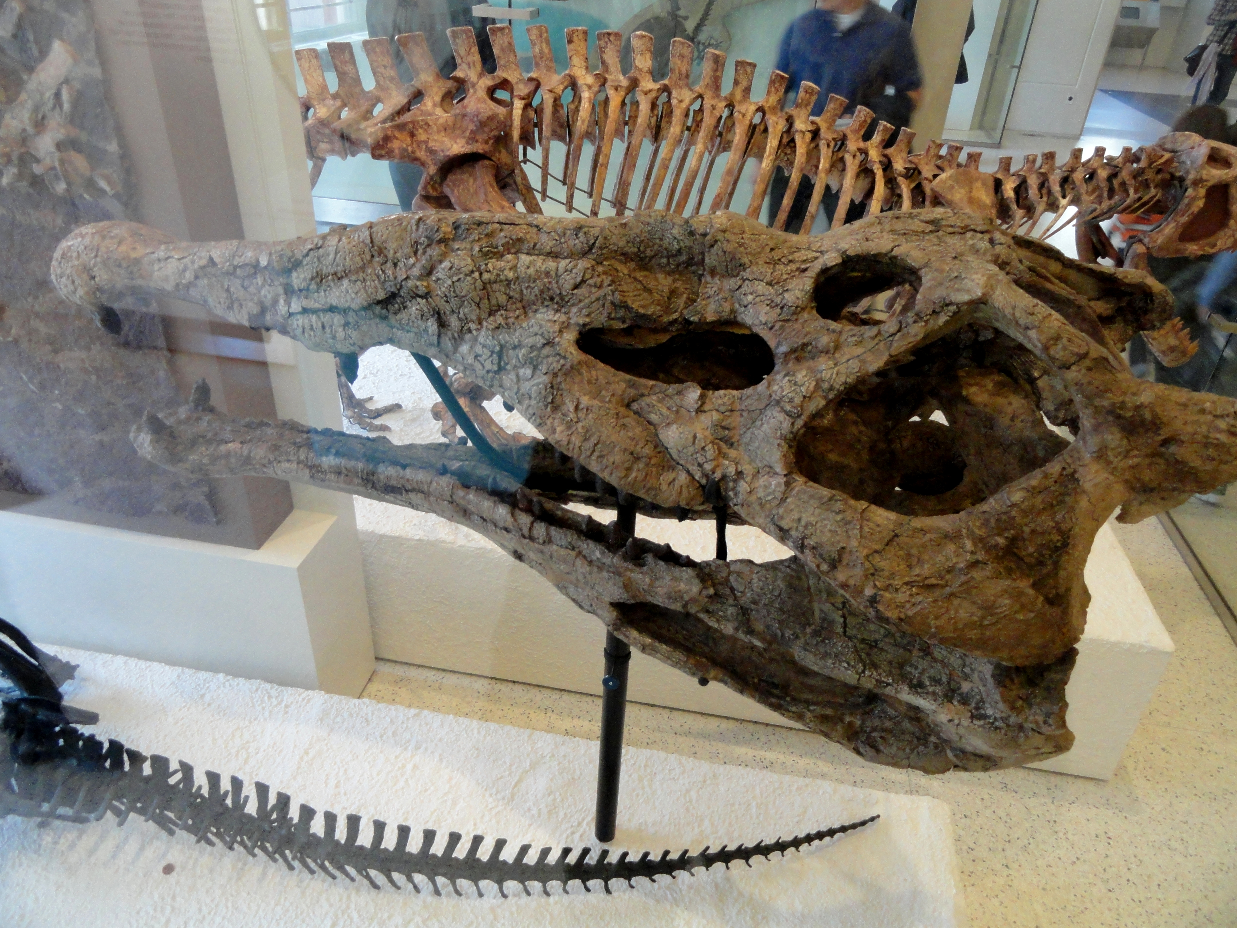 Exhibit in the fossil collection of the American Museum of Natural History, Manhattan, New York City, New York, USA.